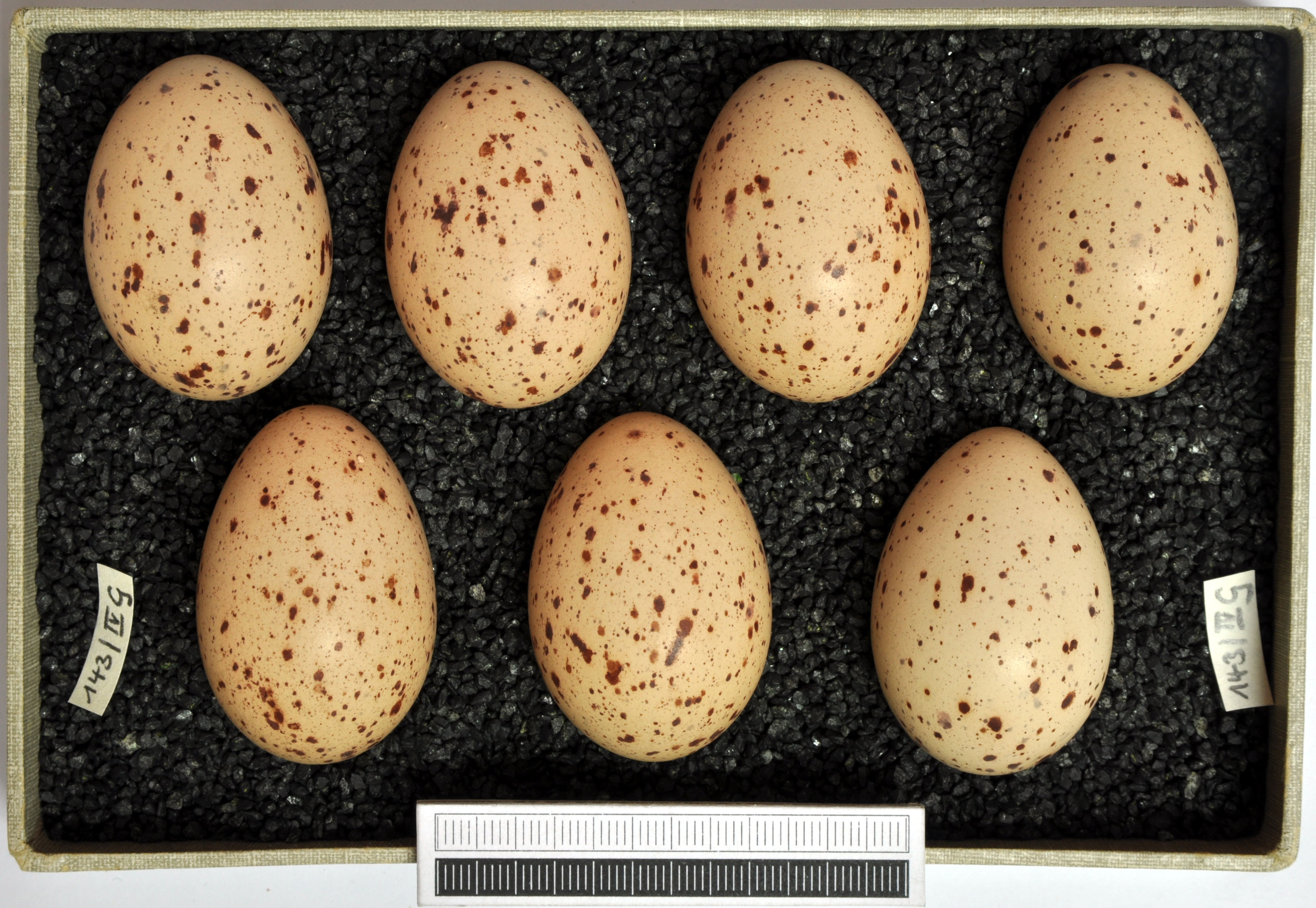 Common moorhen Gallinula chloropus, egg, Coll. Museum Wiesbaden, Origin: Ismaning, Bavaria, 18.05.1973, leg. W. Abelmann